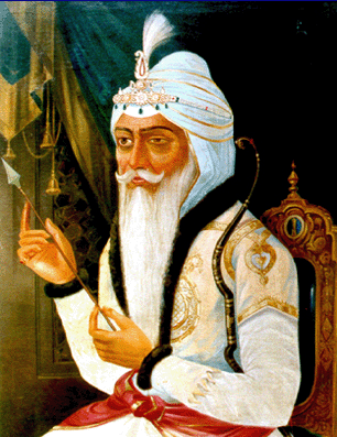 a rare and historic painting of Maharajah Ranjit Singh